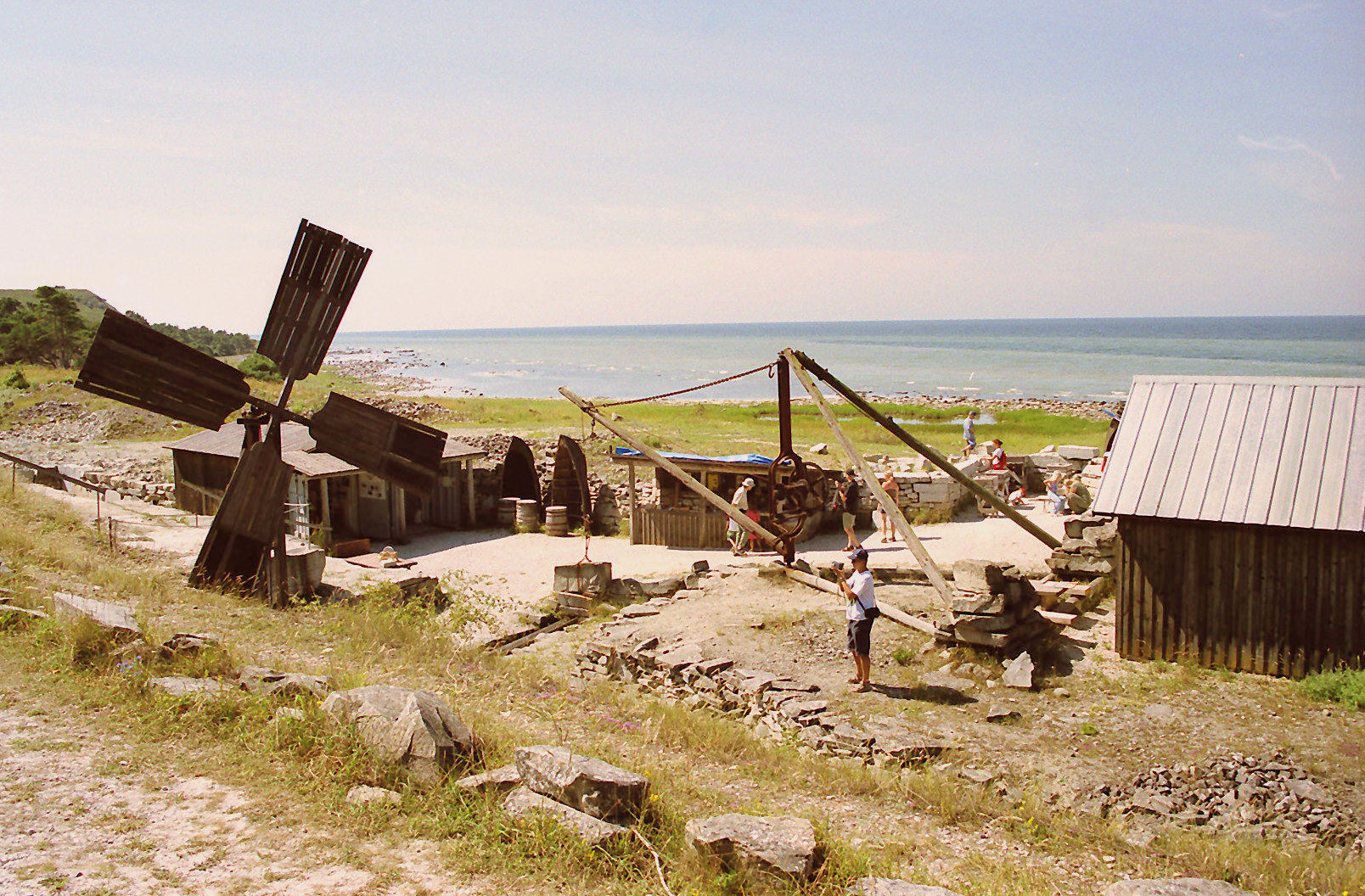 Kettelvik stone museum, Sundre parish, Gotland